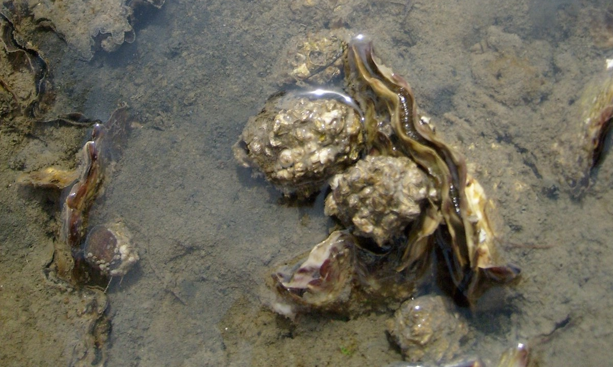 Pacific oysters in the Wadden Sea near the island Schiermonnikoog in the Netherlands